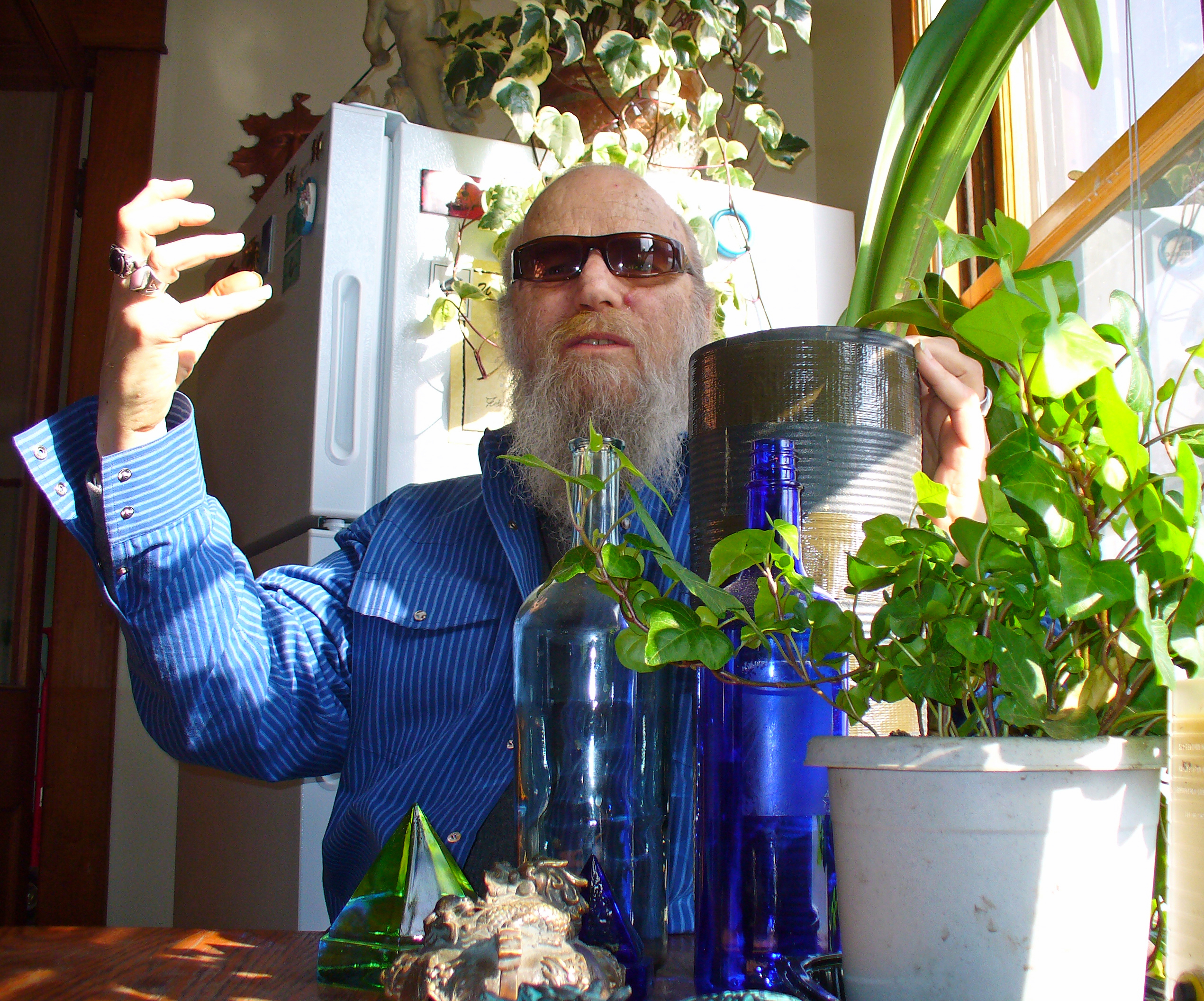 Billy Name in his kitchen discussing astrology.The photographer dedicates this portrait of his friend and mentor Billy Name to Wikipedia editor Durova, Lise Broer. One of the most famous Wikipedians, Durova's artistic eye, writing, image restoration and numerous other contributions across the Wikimedia spectrum have impacted...just about everything.